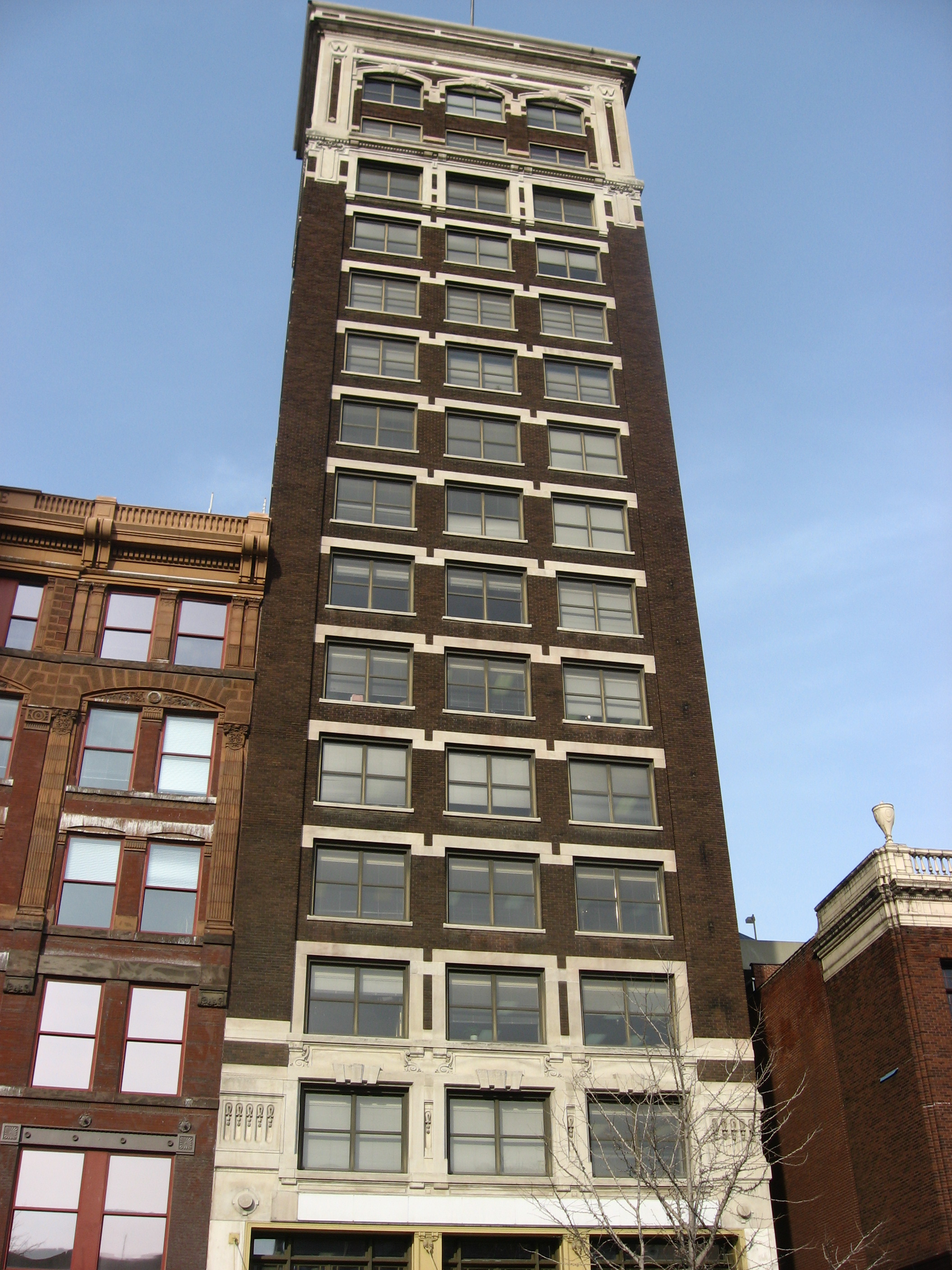 Front of the Hotel Washington, located at 32 E. Washington Street in downtown Indianapolis, Indiana, United States. Built in 1912, it is listed on the National Register of Historic Places, and it is a part of the Register-listed Washington Street-Monument Circle Historic District.